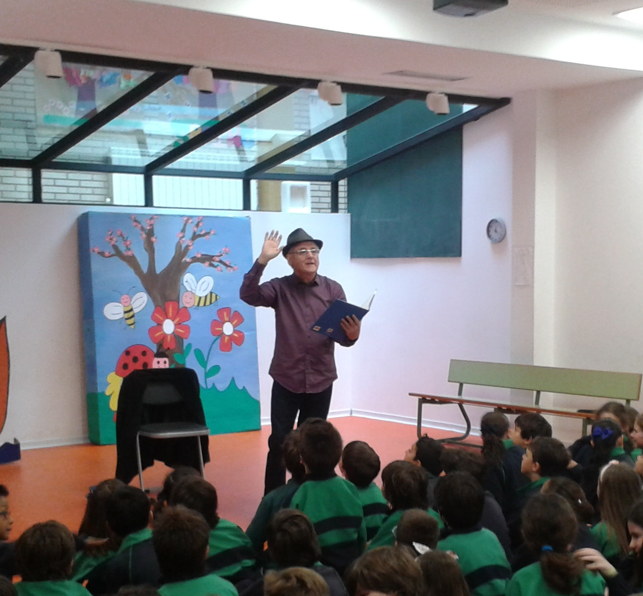 The storyteller Paco Abril